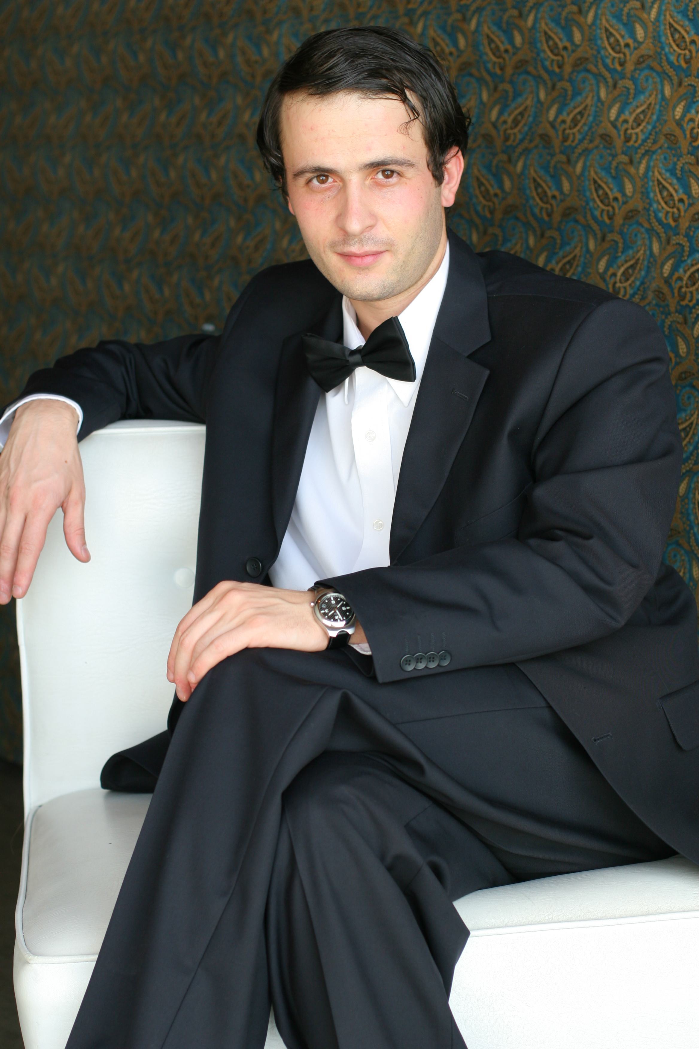 Giorgi Latsabidze: Concert Pianist and Film Composer